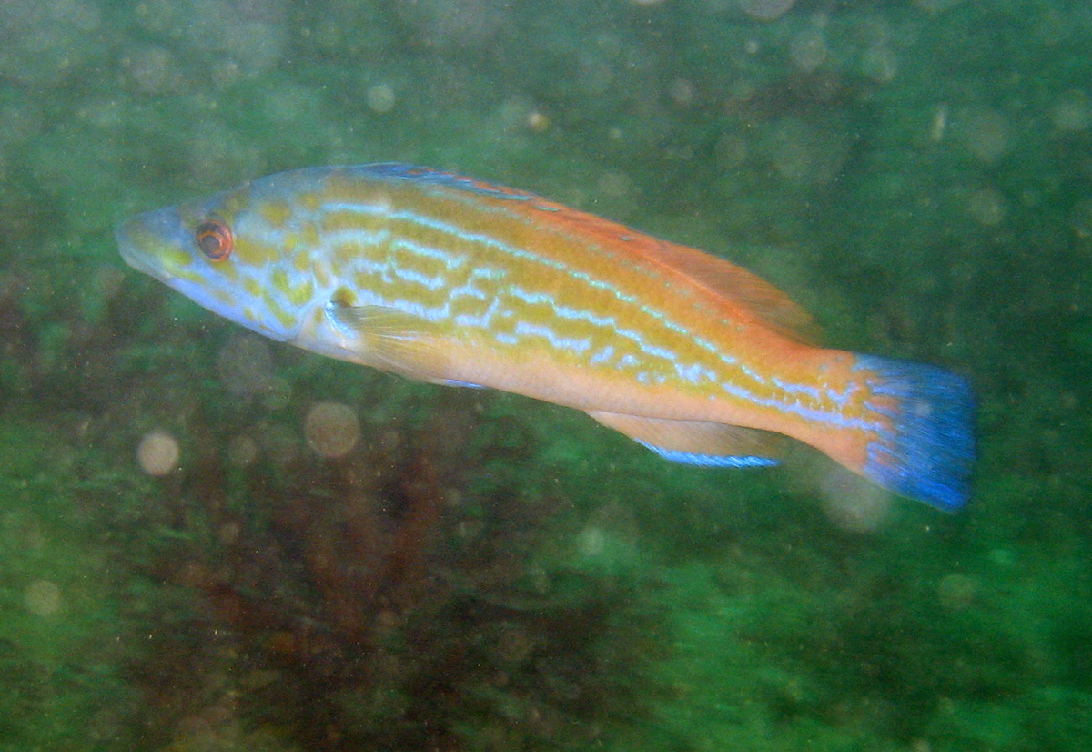 Male Cuckoo wrasse taken on West Waldron Rocks, off Littlehampton, West Sussex, England at aboth 14 metres depth